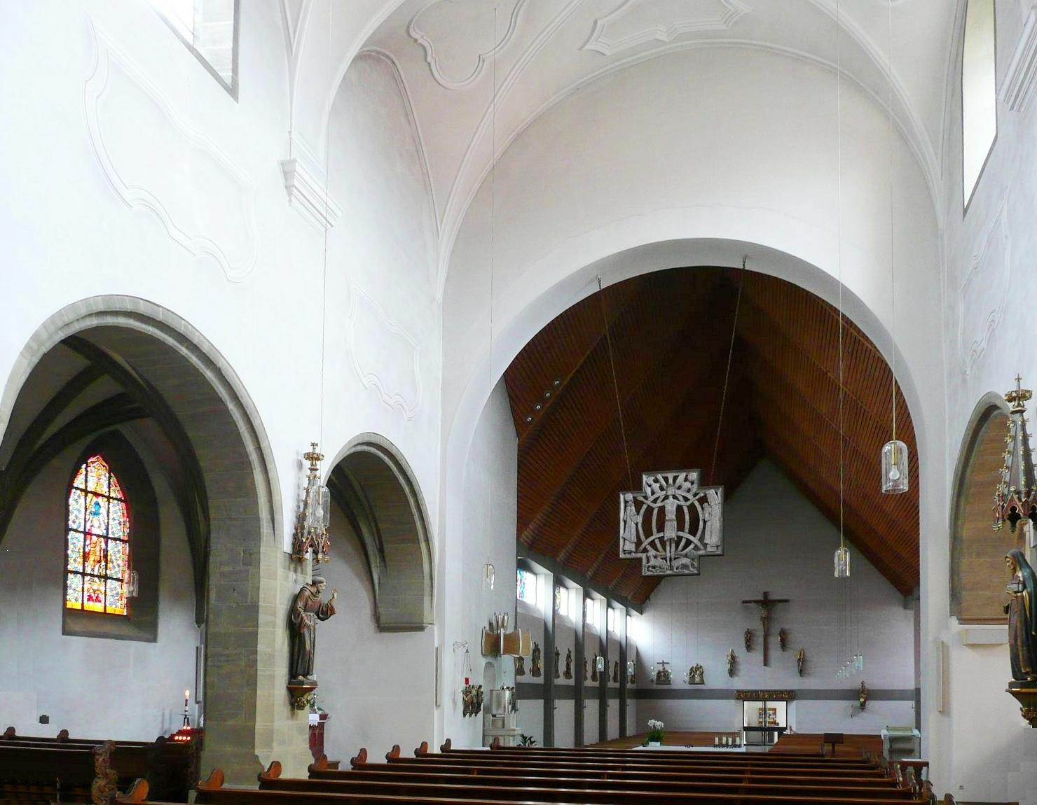 The old and new parts of the St.Joseph church, Neunburg vorm Wald, Upper Palatinat (Bavaria)